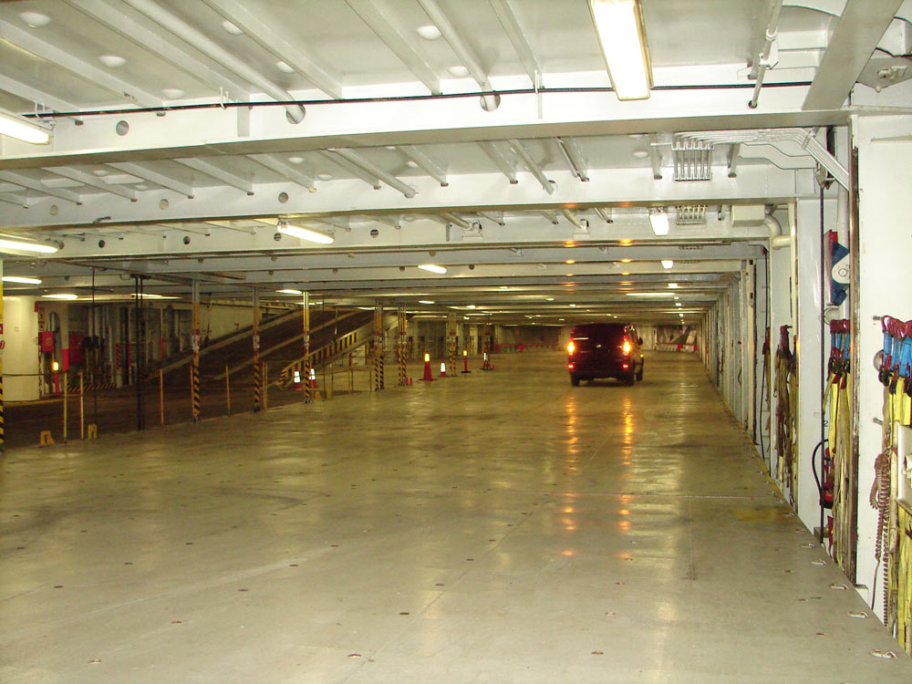 View of the deck inside a car carrier.